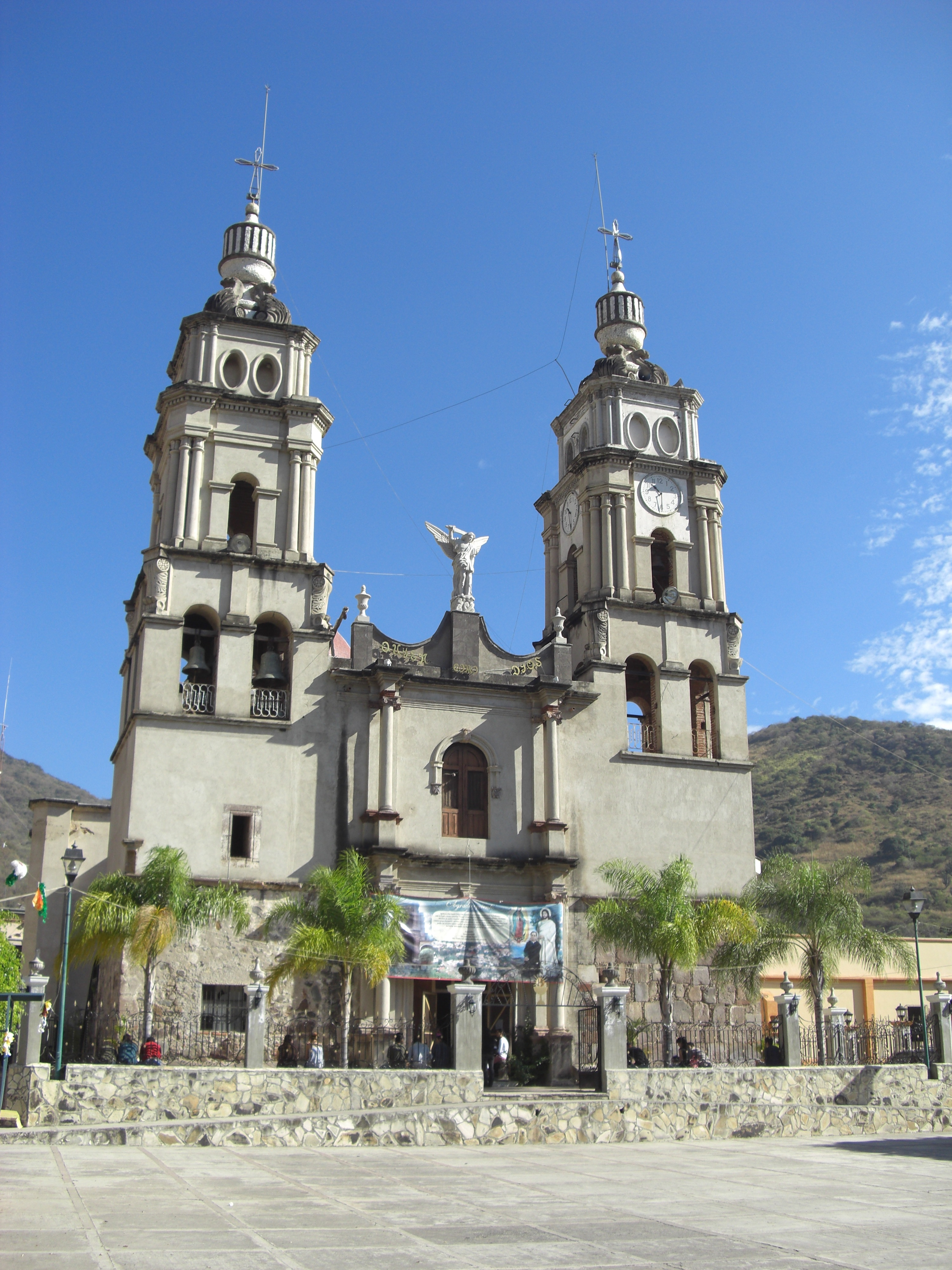 Templo visto desde la plaza